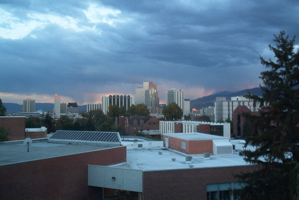 Skyline of Reno, Nevada, taken from Lincoln Hall on the University of Nevada, Reno campus